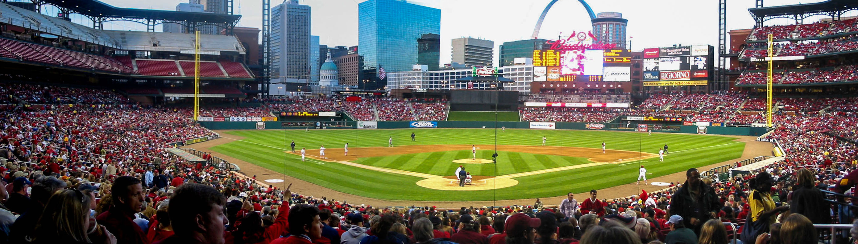 2006 1st game at new Busch